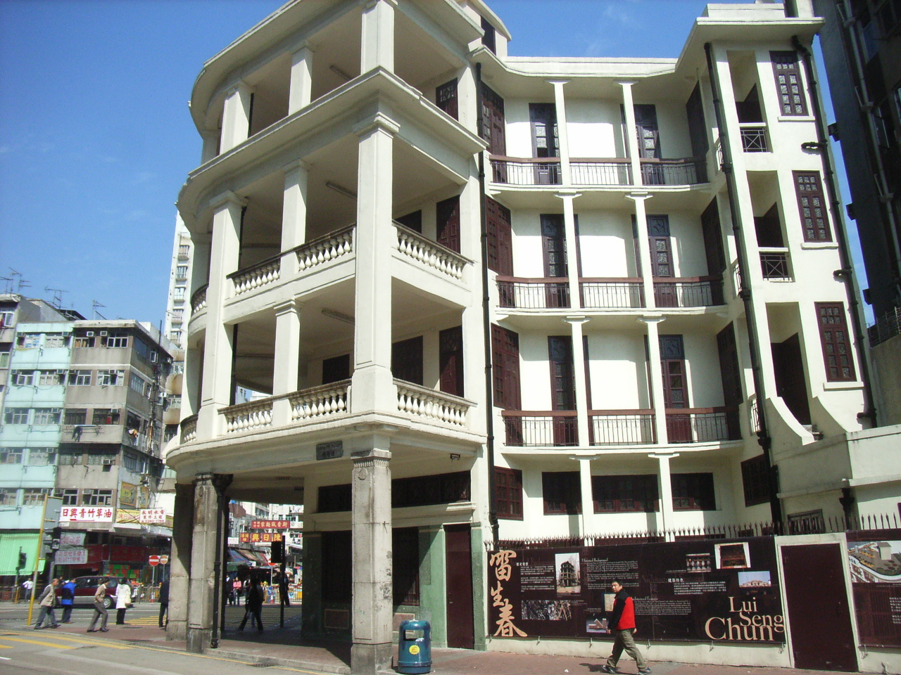 雷生春 位於zh:香港九龍旺角zh:荔枝角道及zh:塘尾道交界 Lui Seng Chun (雷生春) is a historical 4-story building on 119 Lai Chi Kok Road, Hong Kong. Photo by User:OLAMB.